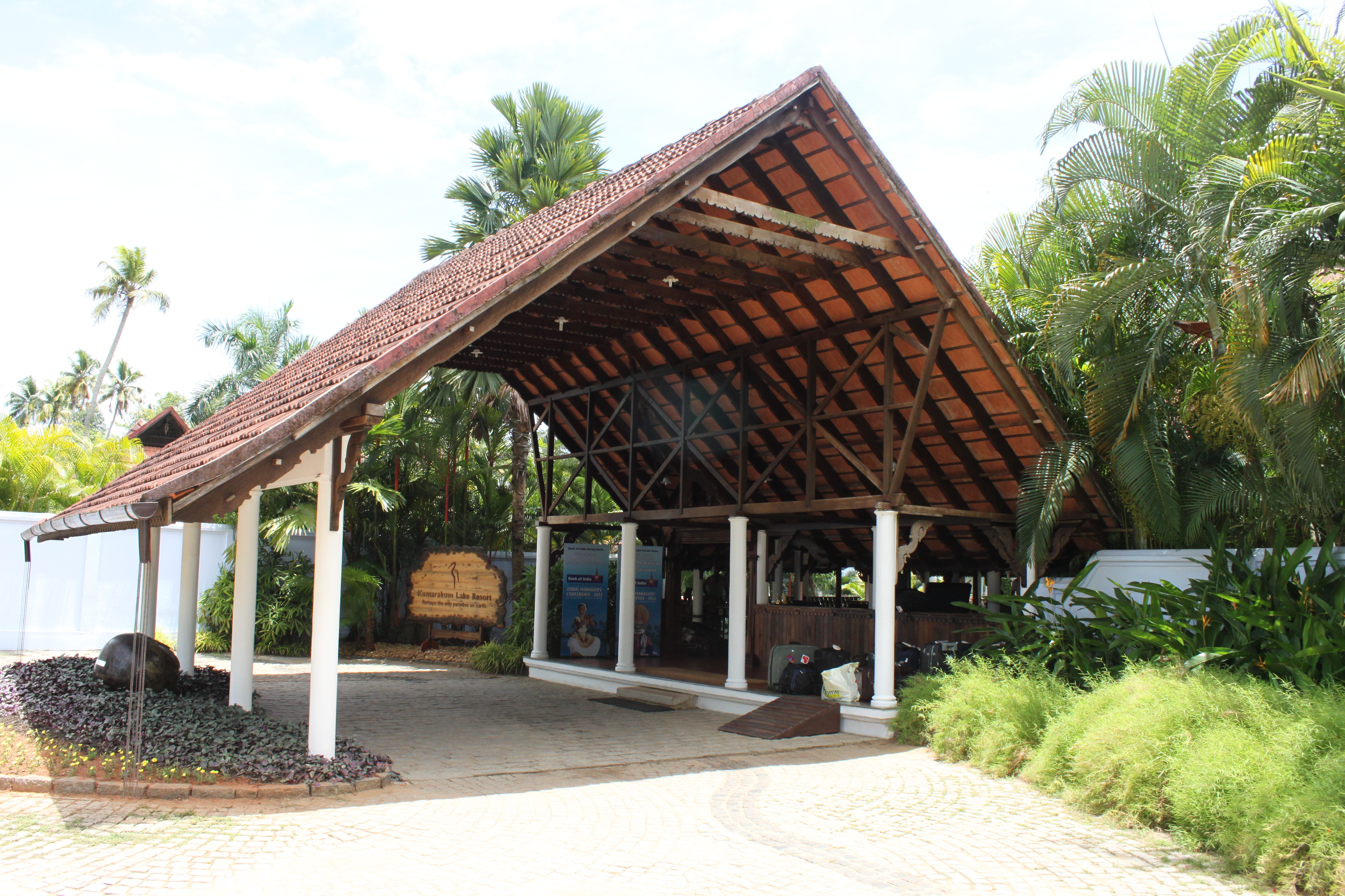 kumarakom lake resort front view